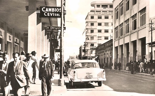 Old Asuncion